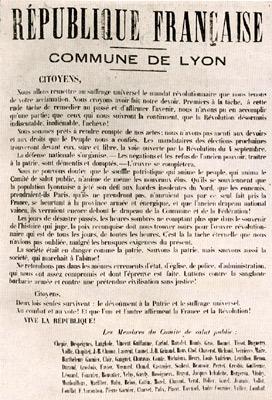 Proclamation of the Lyon Commune of 1870, co-written by Mikhail Bakunin